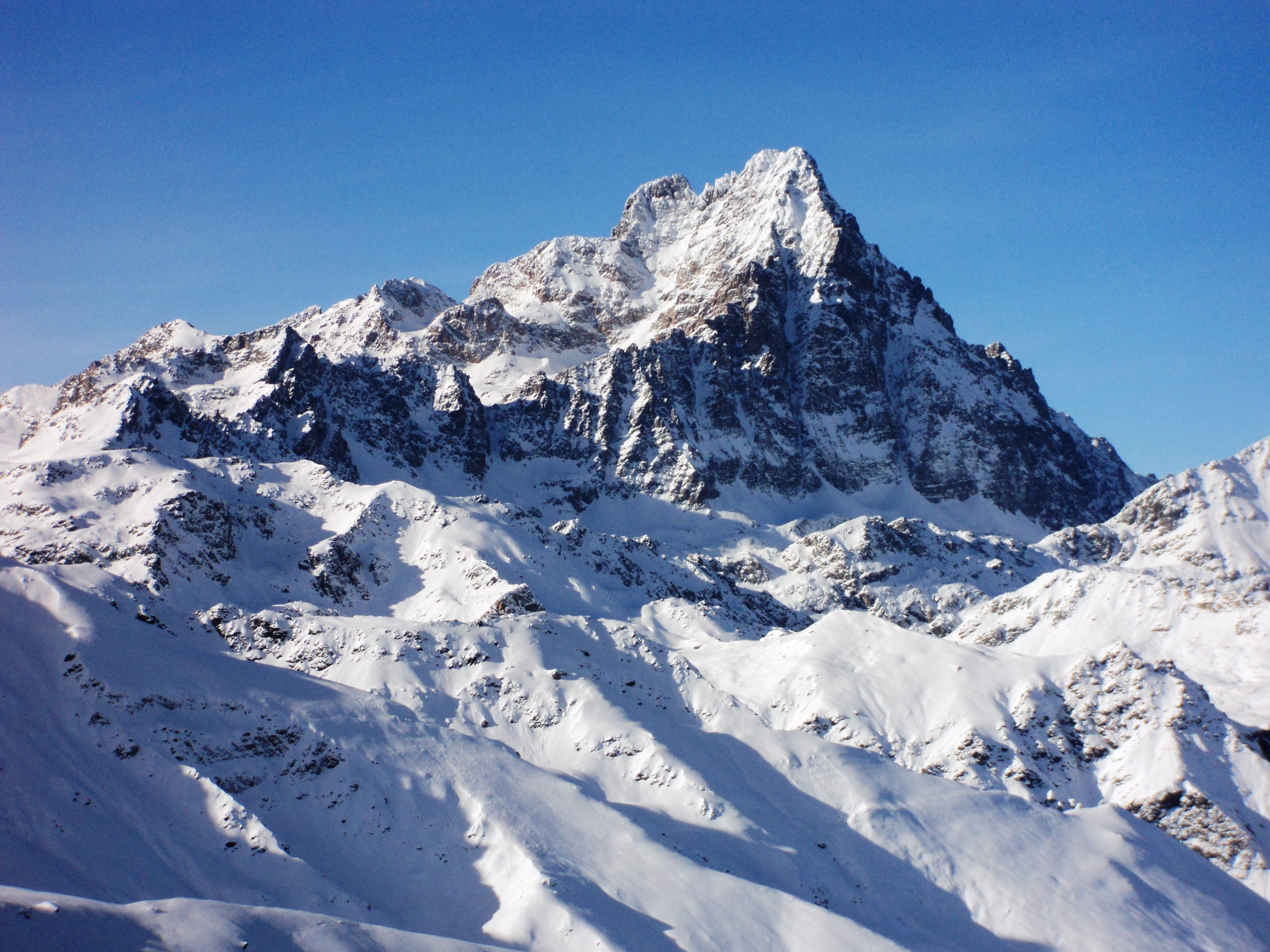 Mont Viso from Testa di Garitta Nuova